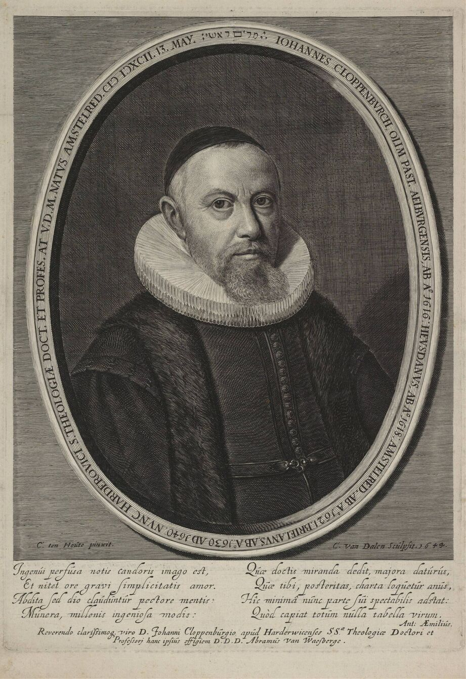 Portrait of Johann Cloppenburg (1592–1652), Dutch Calvinist theologian.